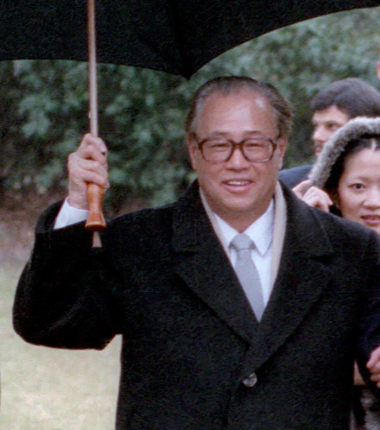 Premier Zhao Ziyang of the People's Republic of China during his visit to the White House